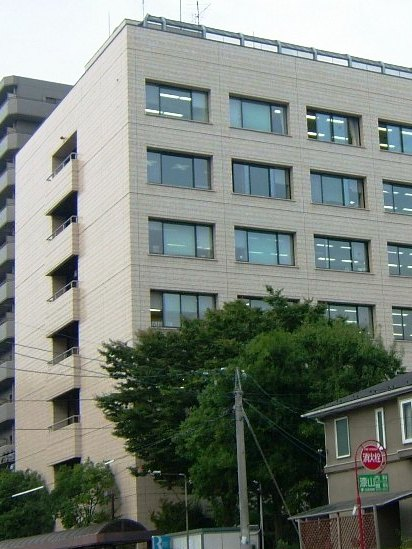 Sendai City Transportation Authority